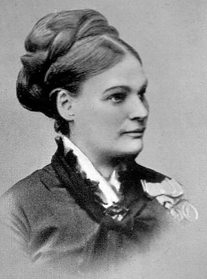 The famous swedish artist Lea Ahlborn (1826-1897)